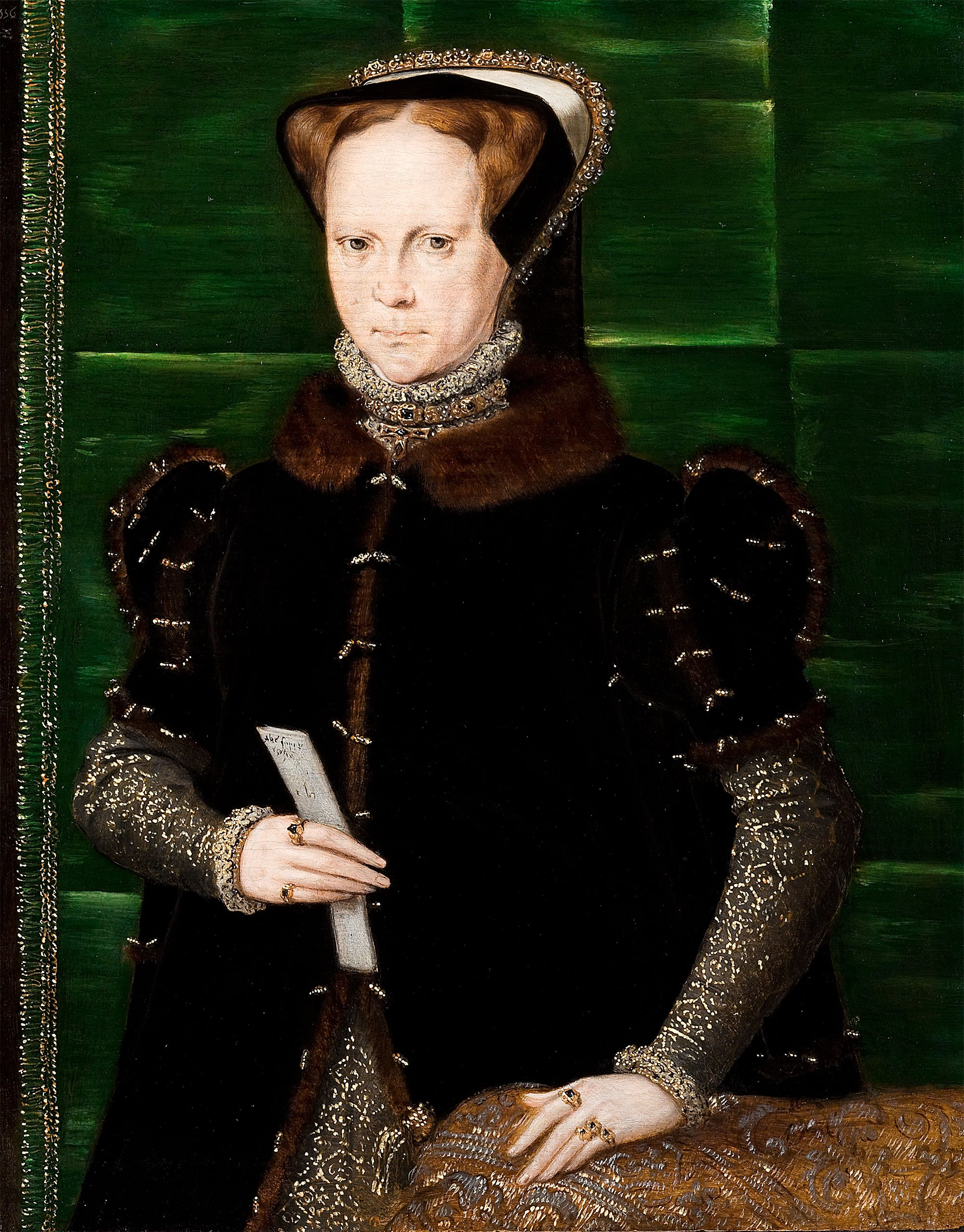 Portrait of Mary I of England, oil on panel